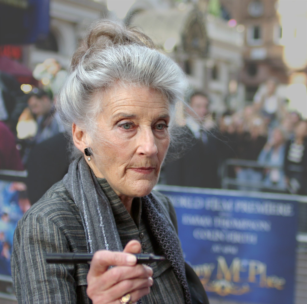 Phyllida Law at the Nanny McPhee London premiere